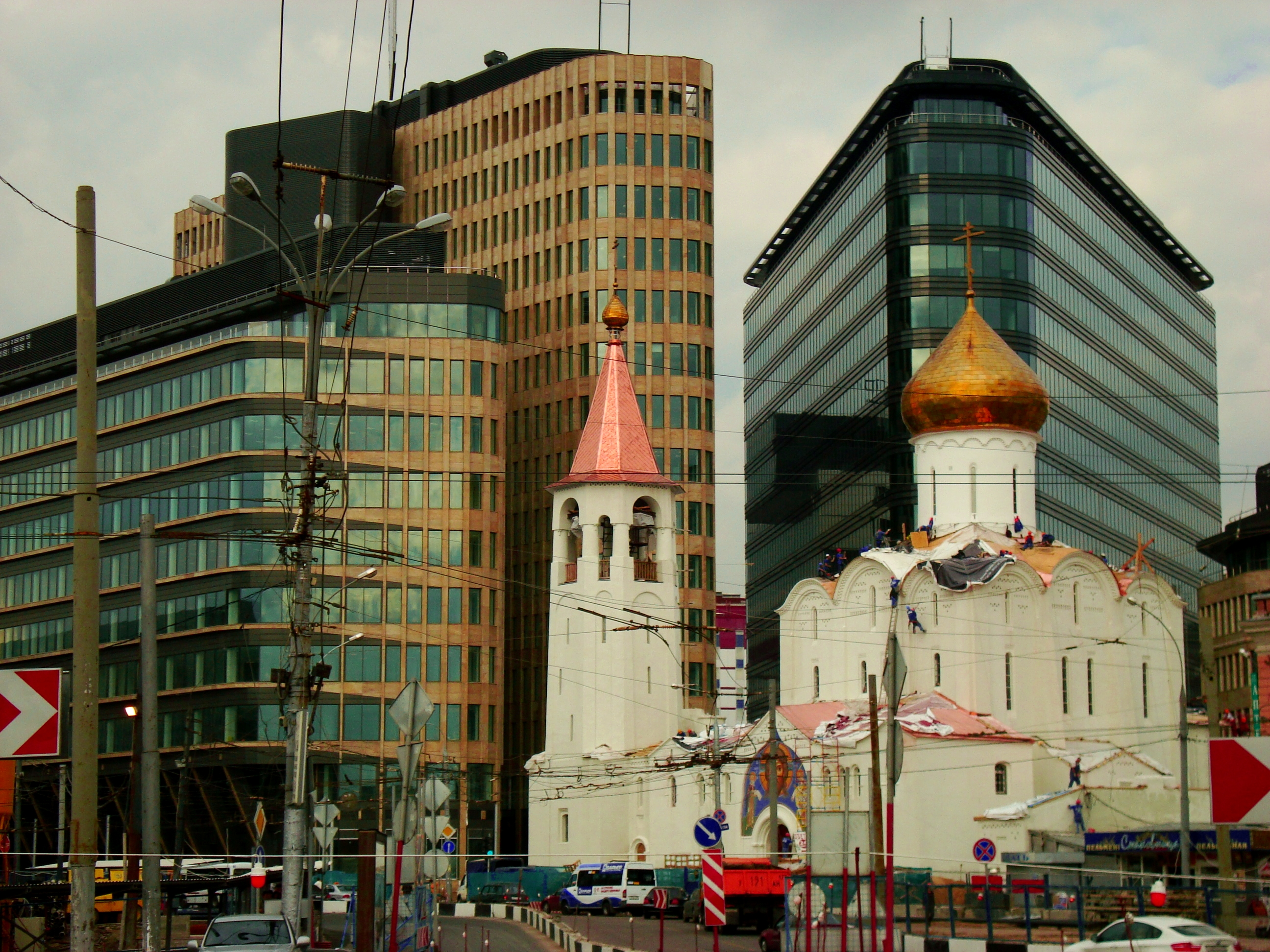 Moscow, Saint Nicholas temple on Tverskaya Zastava